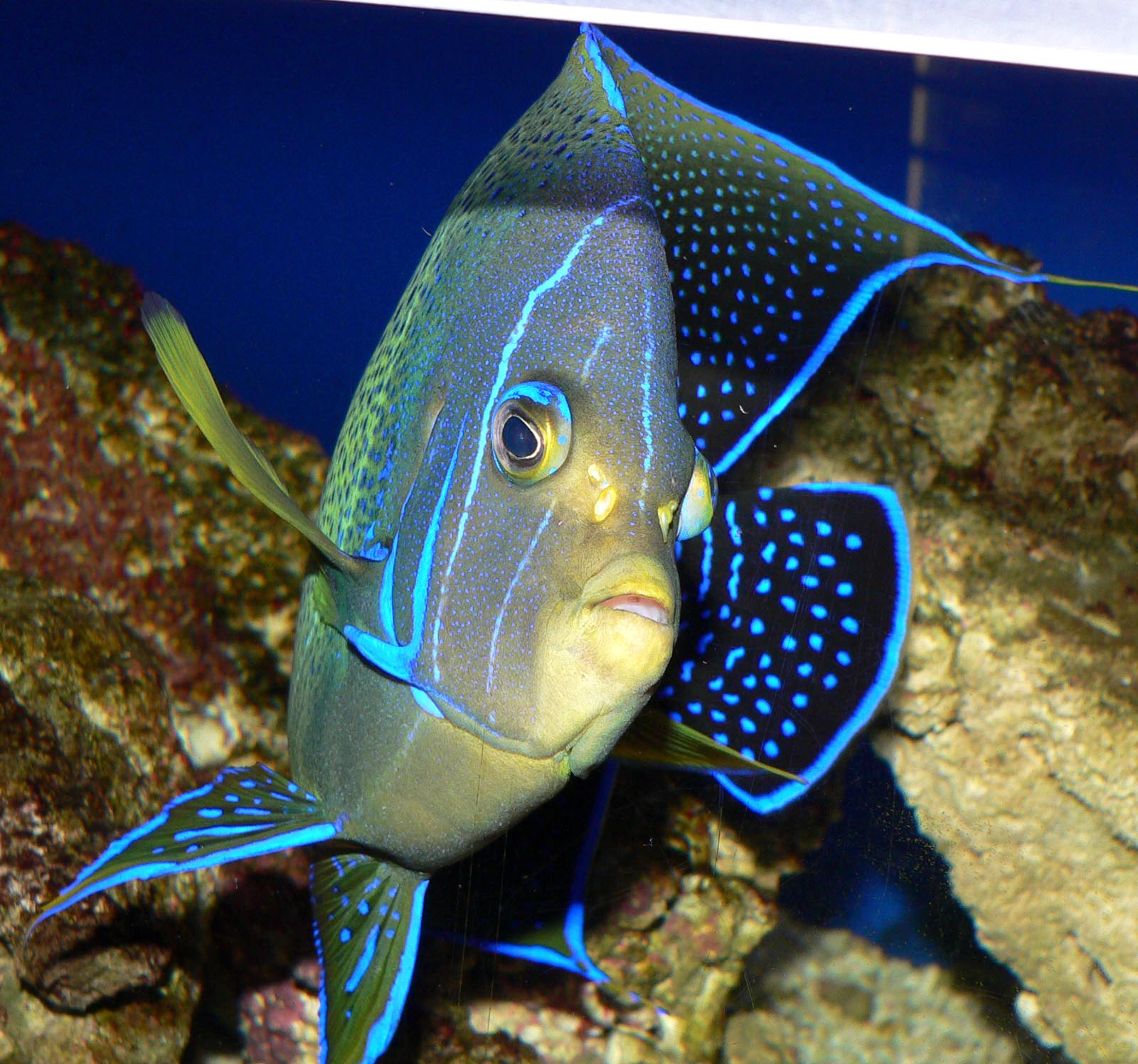 Photo of Pomacanthus semicirculatus (semicircle angelfish) at the Steinhart Aquarium in San Francisco